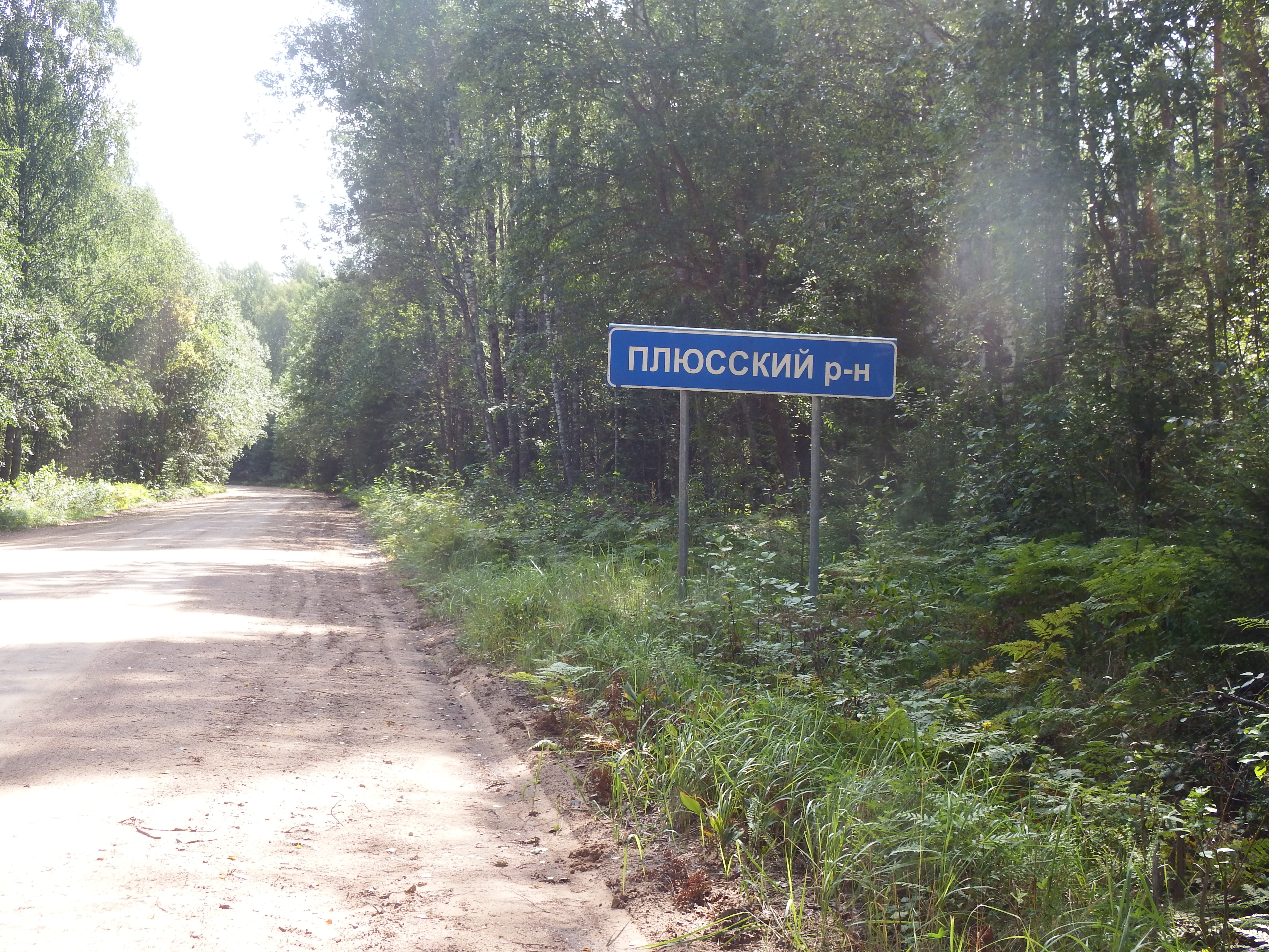 Pskov region, Pliussa district, boundary with Gdov district